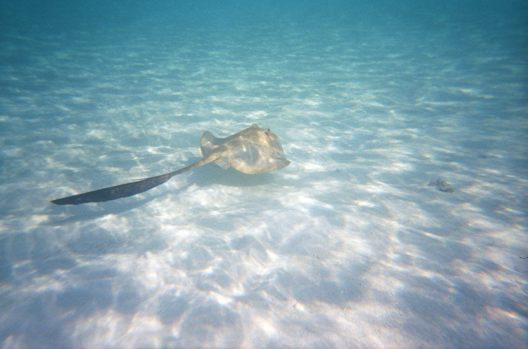 Cowtail stingray (Pastinachus sephen) in the Maldives